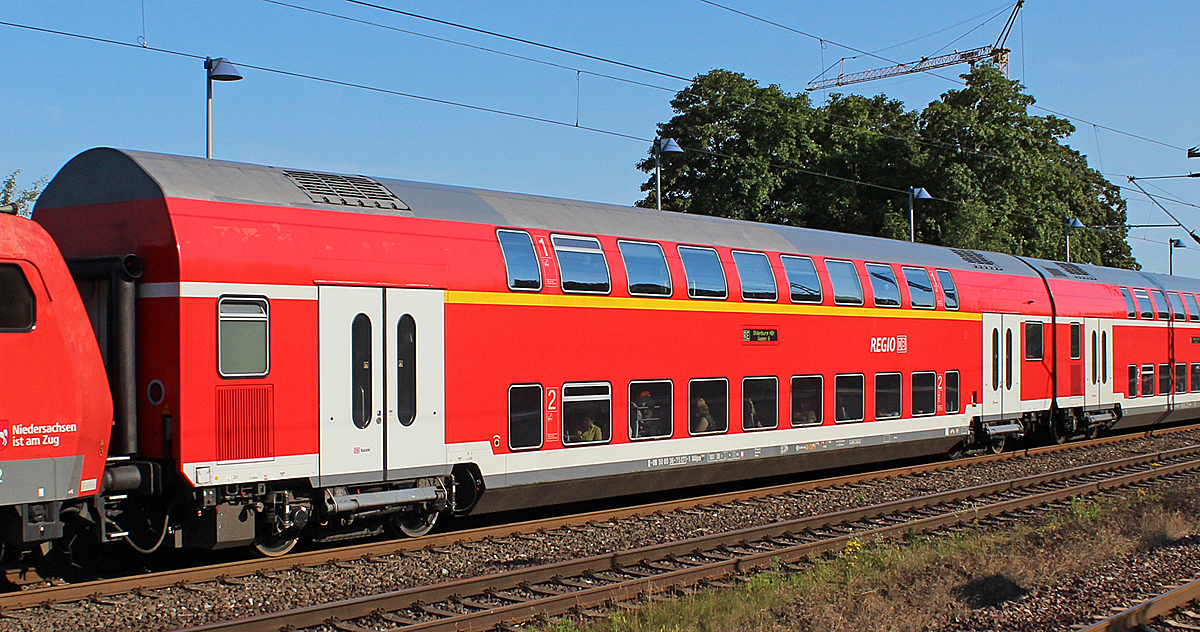 Double deck coach D-DB 50 80 36-75 071-1 DABpza 758.5 of Deutsche Bahn AG, built 1997 and modernized 2013 for regional services around Bremen ("RE-Kreuz Bremen" network), seen in a Hannover - Norddeich trainset at Dörverden.